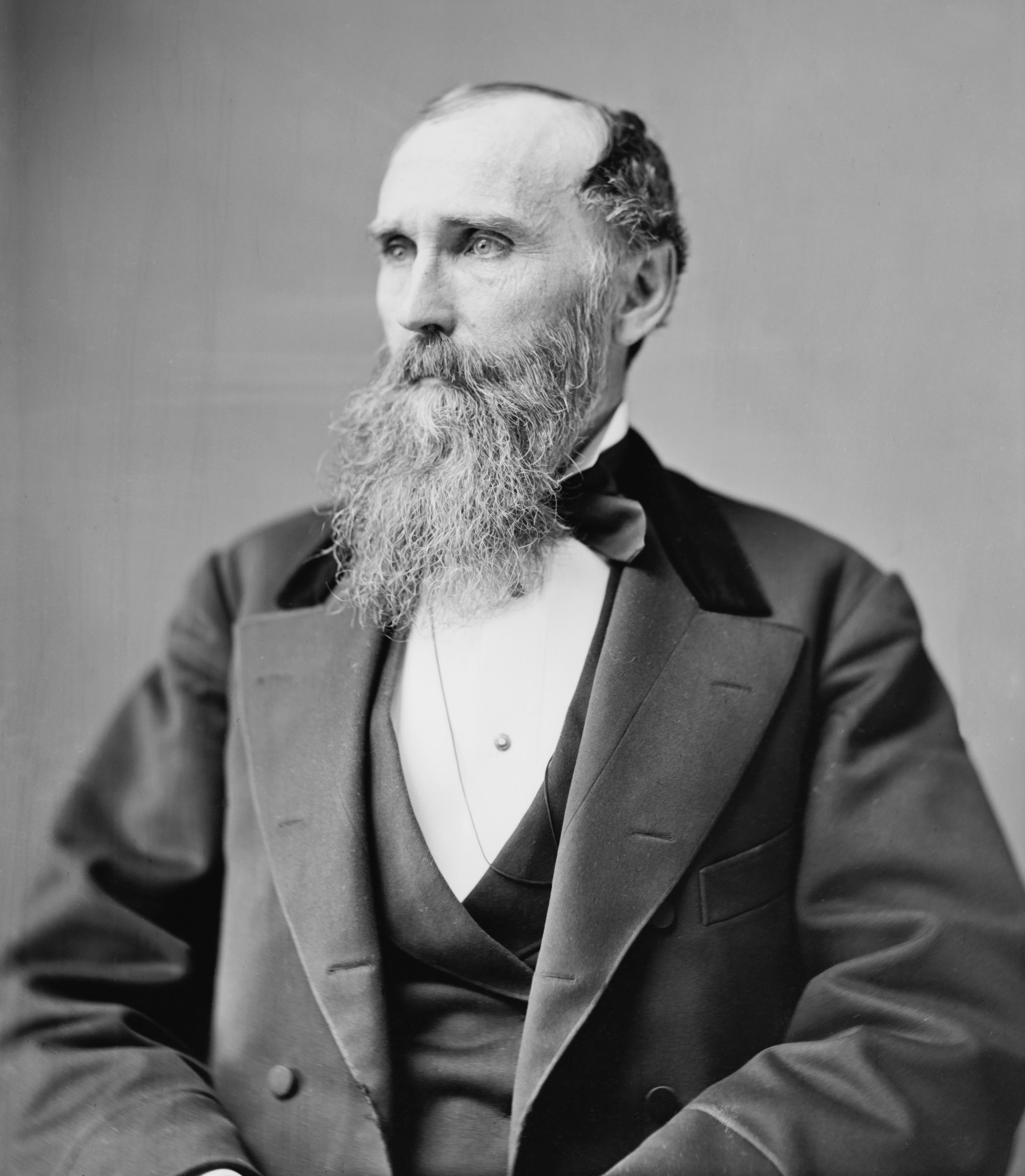 George Gilbert Hoskins. Library of Congress description: "Hoskins, Hon. G.G. of N.Y.".